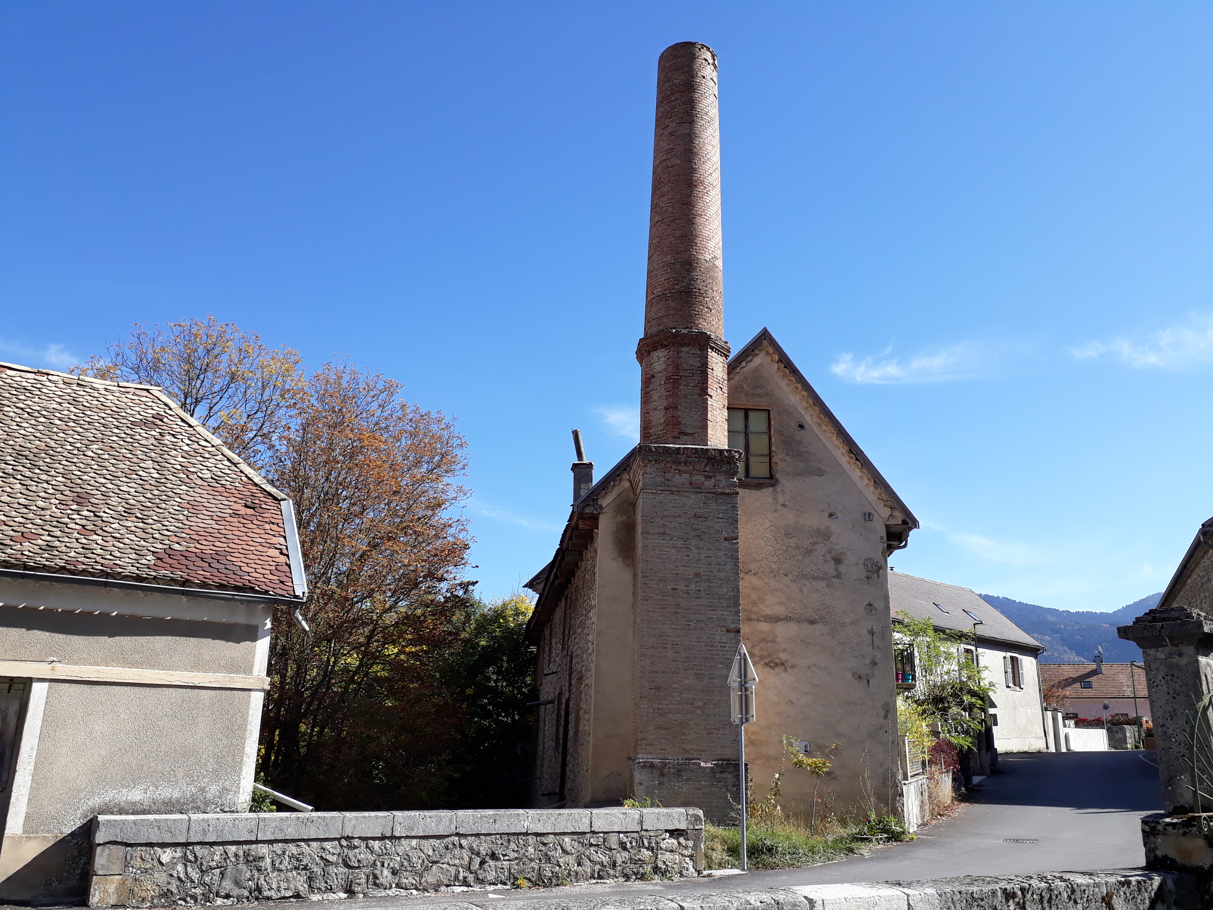 The old gold factory of saint Maurice en Trièves. Out of use nowadays.